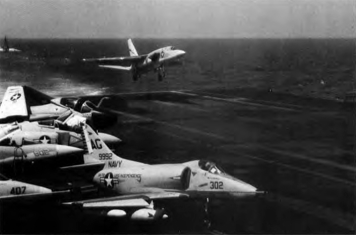 A U.S. Navy North American RA-5C Vigilante from Heavy Reconnaissance Squadron RVAH-1 Smokin´ Tigers landing aboard the aircraft carrier USS Independence (CVA-62). In the foreground is a Douglas A-4E Skyhawk (BuNo 149992) from Attack Squadron VA-72 Blue Hawks. Both Squadrons were assigned to Carrier Air Wing 7 (CVW-7) aboard the Independence for a deployment to Vietnam from 10 May to 13 December 1965. During this deployment, the A-4E 149992 injested own 2.75-in rocket debris over the Thanh Hoa Province, North Vietnam, on 13 September 1965. The pilot could reach the Gulf of Tonkin where he ejected and was rescued by a U.S. Navy helicopter.